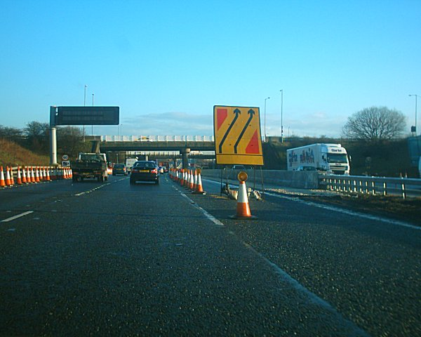 M18 motoroway near Rotherham northdown ahead of exit 1.